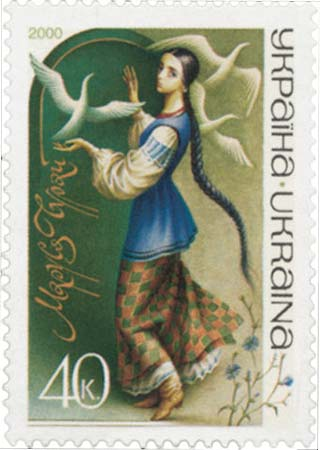 Ukrainian stamp, 2000, Marusya Churay, legendary half-real, half-imaginary person in Ukraine. She is claimed to be the author of many Ukrainian folk songs.